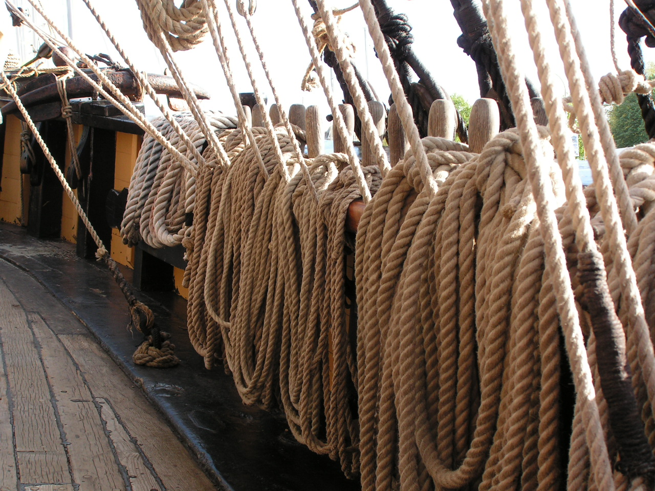 A belaying pin rail on board of the Phoenix Port de Vannes, Morbihan, France.